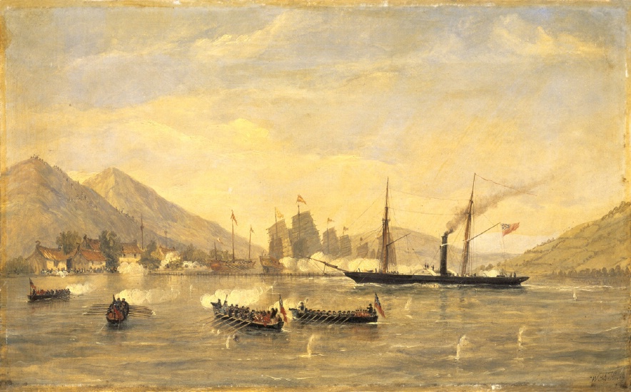 On 23 February 1841, Nemesis in consort with pinnaces from the British ships Calliope, Samarang, Herald, and Alligator, proceeded to Anson's Bay where the Chinese had been observed making hostile preparations by placing stakes across the river. The stakes can be seen in the painting between the background junks and Nemesis. As Nemesis slowed to pull up the stakes and create a passage, a masked battery close abreast on shore opened fire.